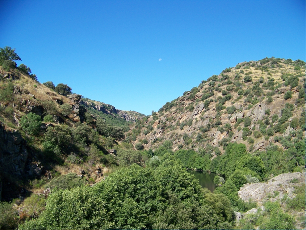 Tormes river near Fermoselle.